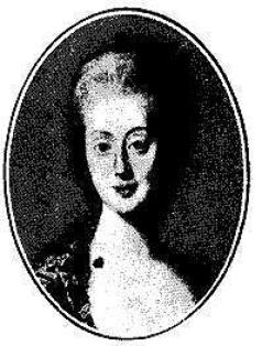 Portrait of Sophia Magdalena of Denmark (1746-1813) Queen of Sweden